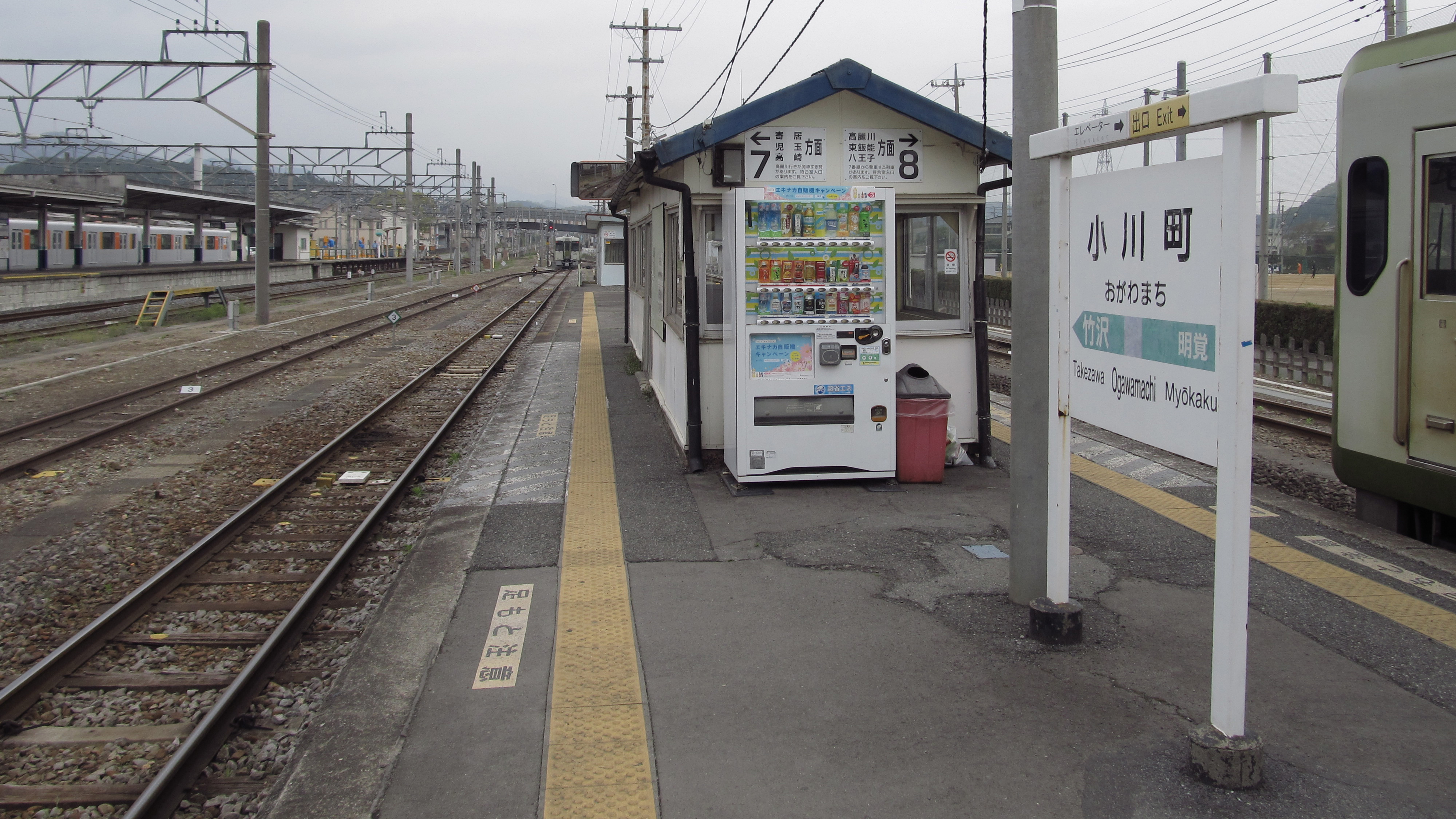 The platform at Ogawamachi Station on the Hachikō Line in Ogawa town, Saitama prefecture, Japan